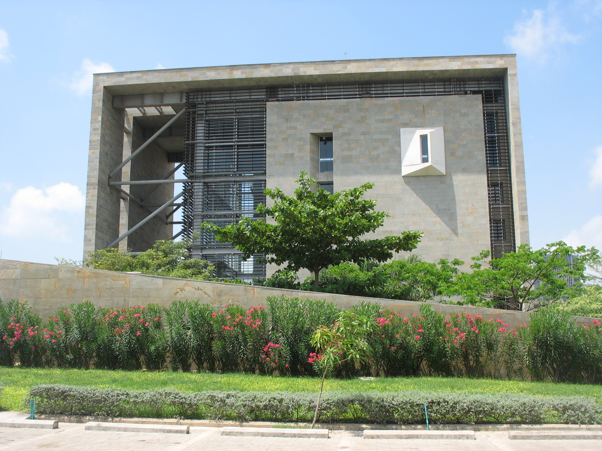 Caribbean Cultural Park - Barranquilla